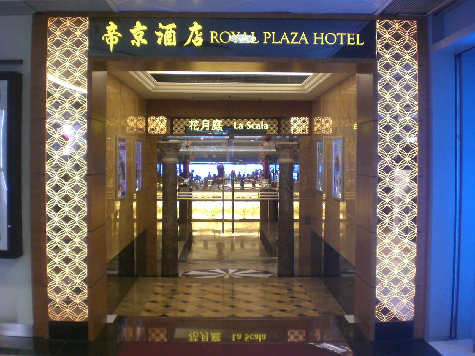 旺角